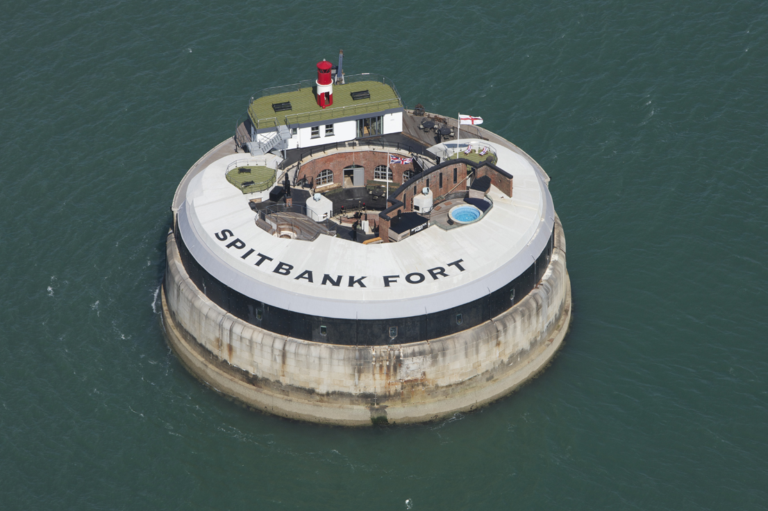 Aerial view of Spitbank Fort 2012, owned by Clarenco LLP.